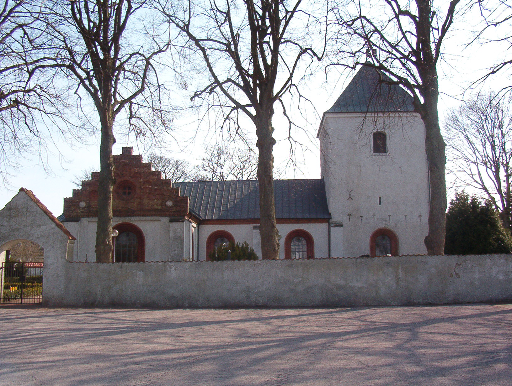 from the side